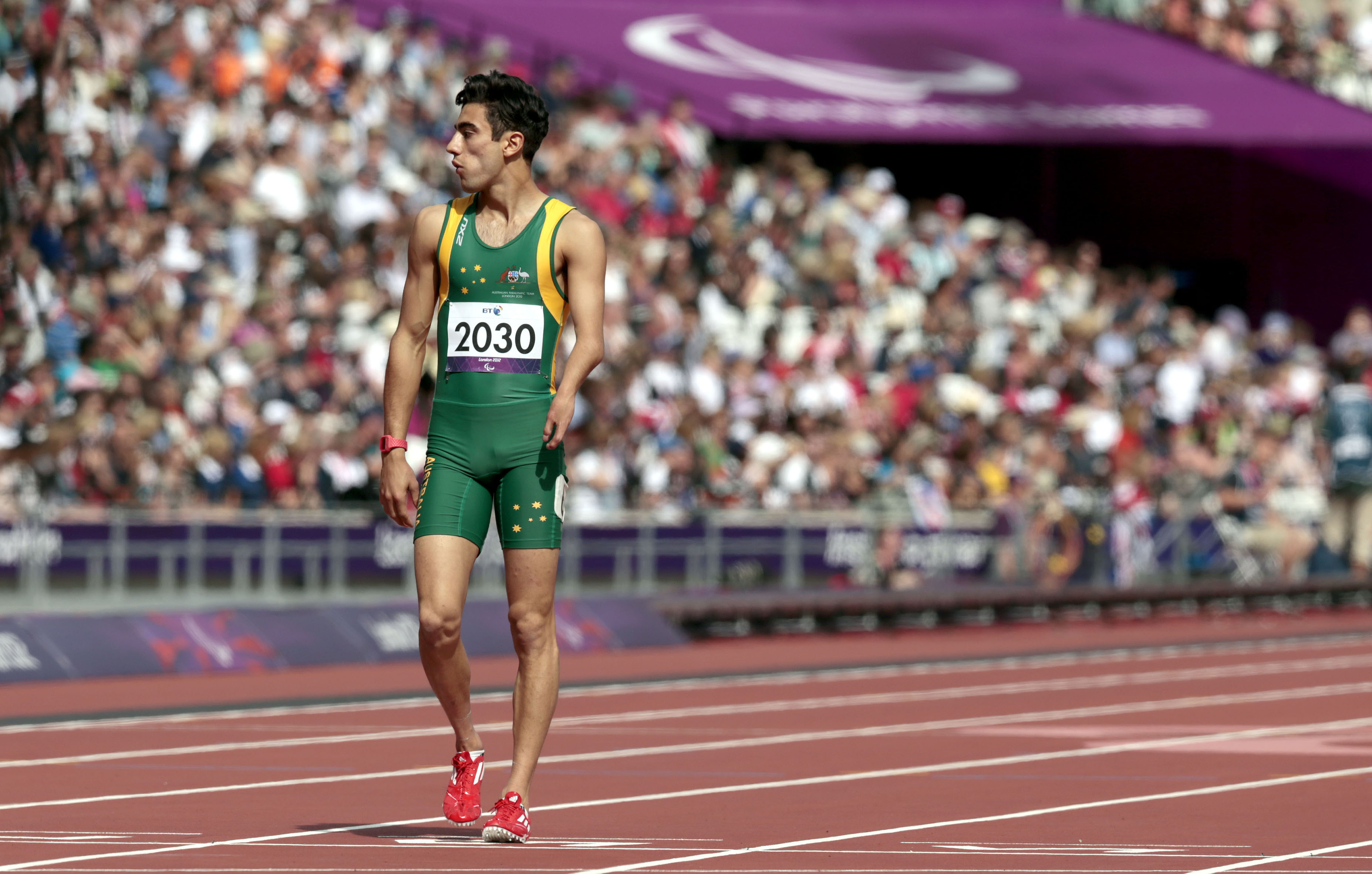 Photograph of Australian Paralympic team member Gabriel Cole at the 2012 Summer Paralympic Games in London